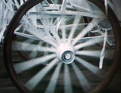 The wheels of a coach